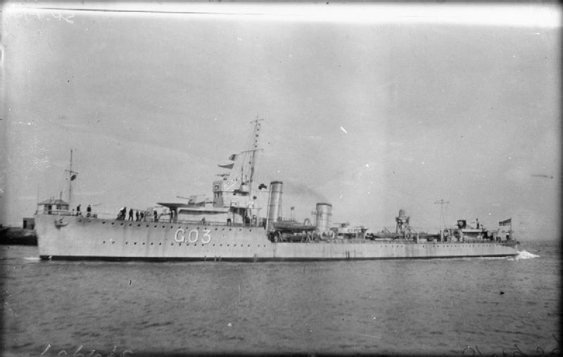 British destroyer HMS VORTIGERN underway.